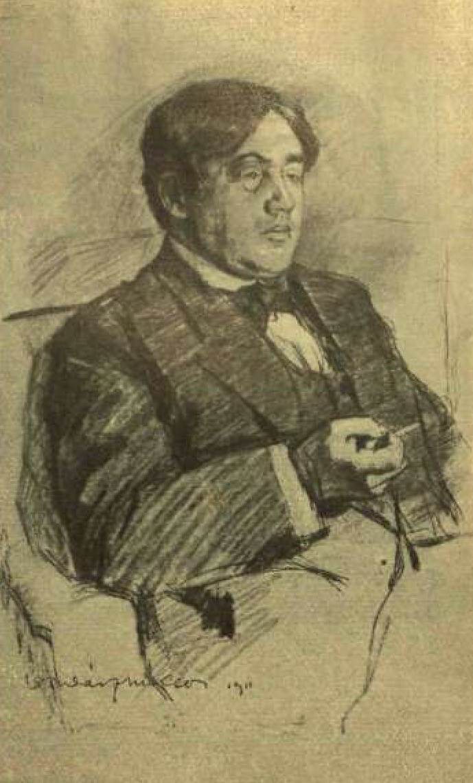 Ferenc Molnár.